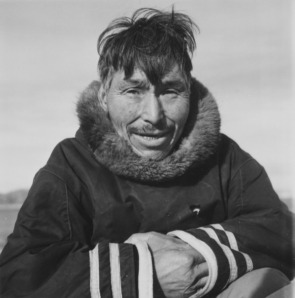 Inuit artist Kiakshuk (1886-1966), photographed by Rosemary Gilliat in 1960 in Cape Dorset, Nunavut for the National Film Board of Canada for the photostory "Eskimo Artists at Cape Dorset: When the Wind Blows They Make Prints"